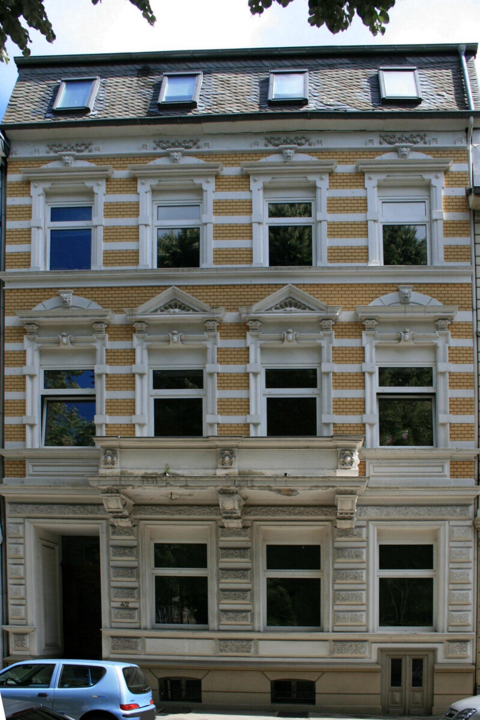 Cultural heritage monument No. A 030 in Mönchengladbach